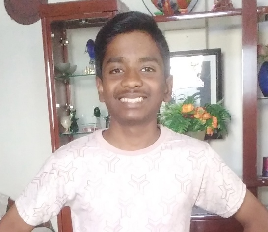 It is the photo of Vaassangyaan Chaudhary who is an Indian boy, who holds two world records in mountaineering.